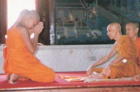 novitiate ordination in the Buddhism . Thailand, Bangkok, 1999. Own work